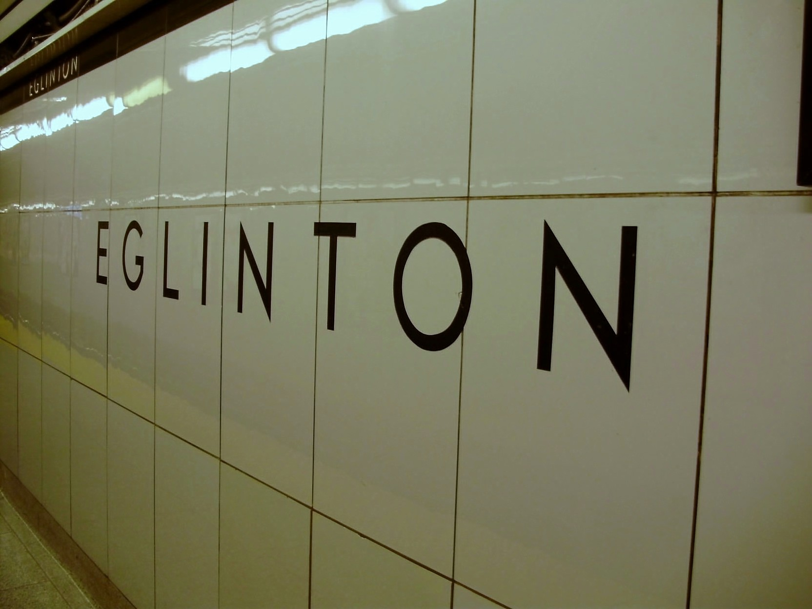 Vitrolite tiling on the walls of Eglinton station in Toronto, Canada. Though the original subway stations of 1954 were all outfitted with Vitrolite, only Eglinton retains the tiles today.